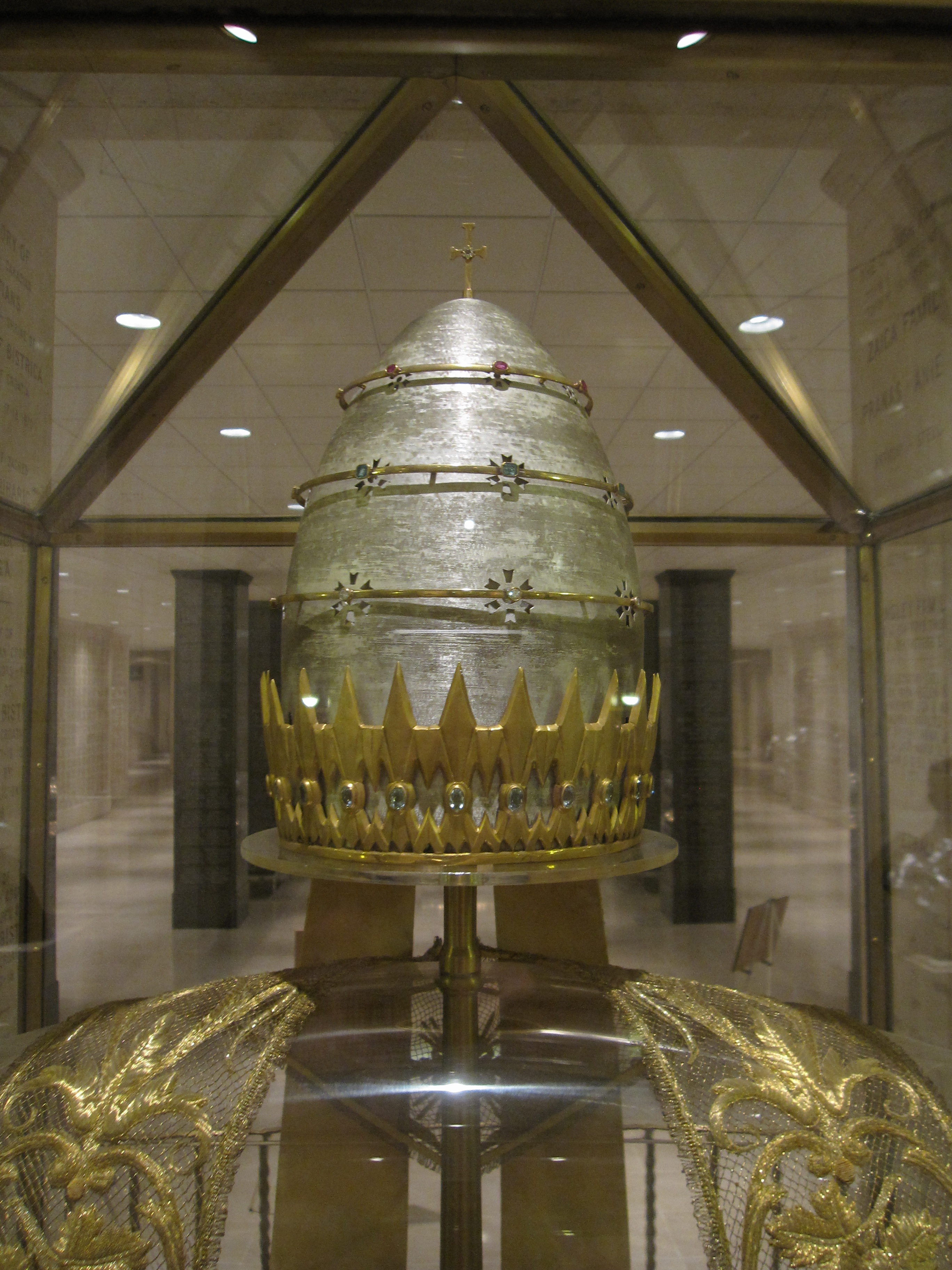 Interior of the Basilica of the National Shrine of the Immaculate Conception in Washington, D.C.